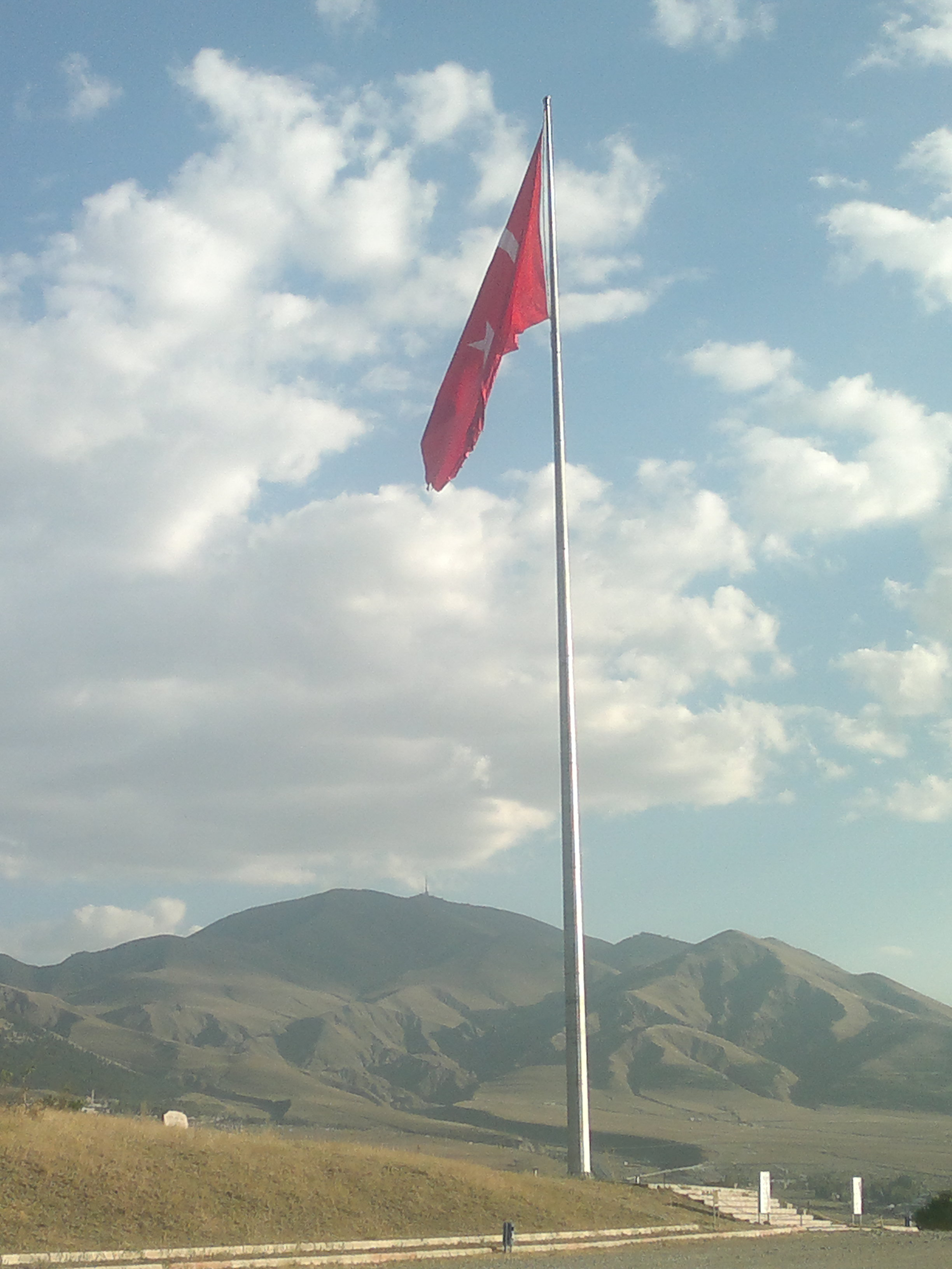 Turkish flag in "Erzurum Aziziye Redoubts (Erzurum Aziziye Tabyaları", Turkey.